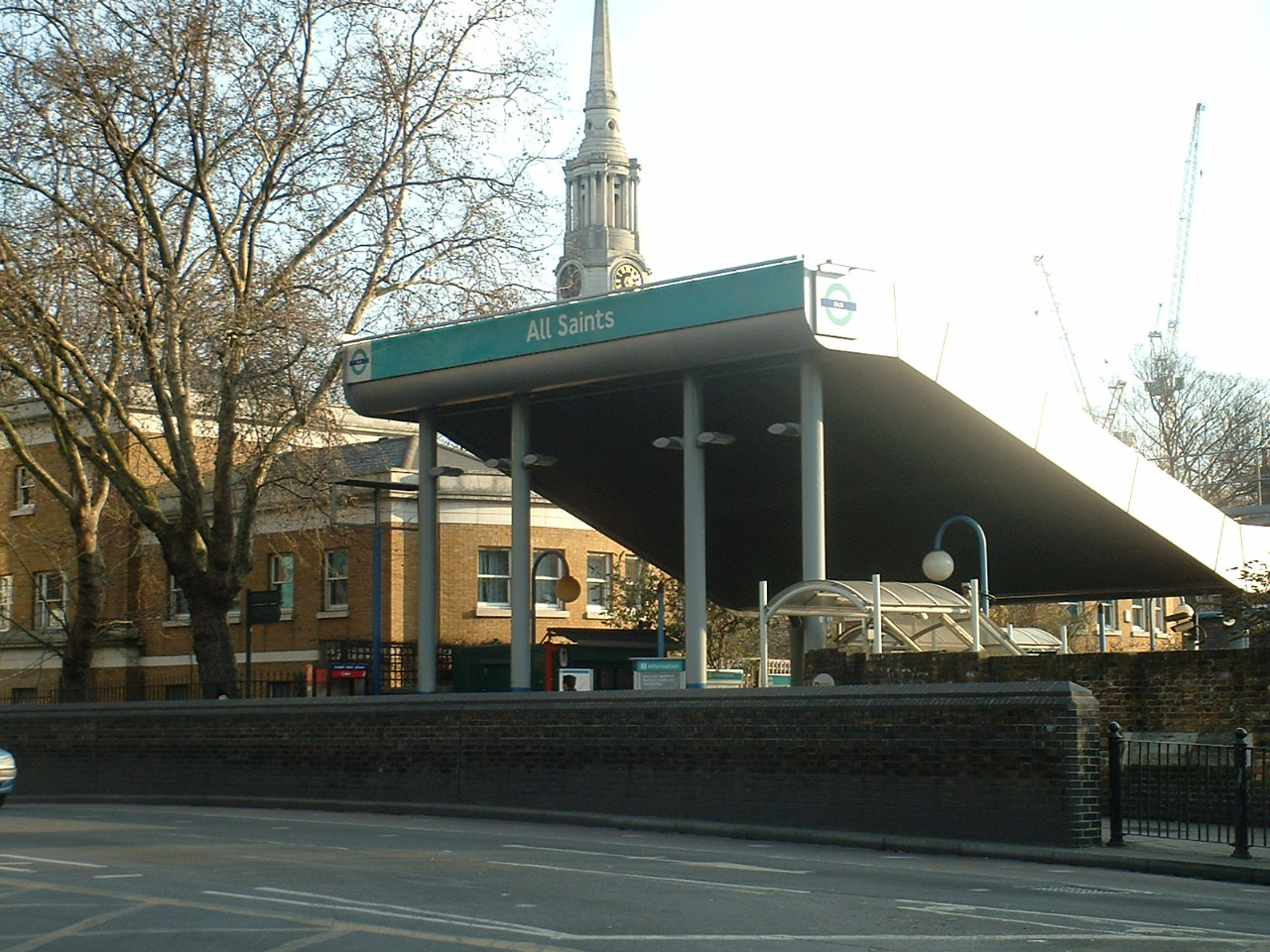 All Saints DLR station, on the A13 East India Dock Road